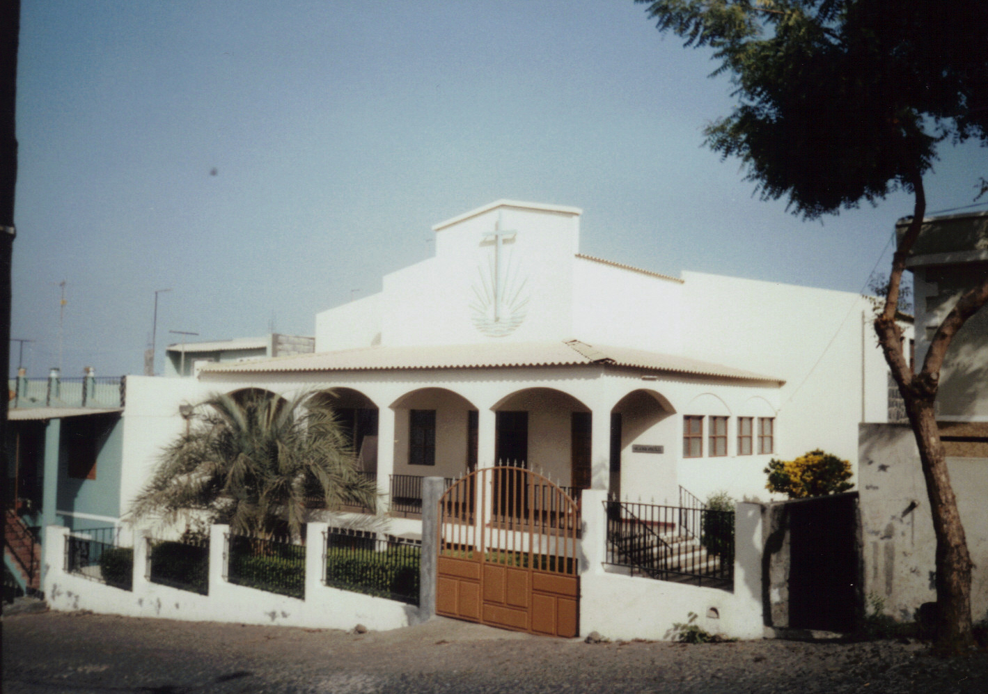 New Apostolic Church, São Filipe, island of Fogo. Cabo Verde.